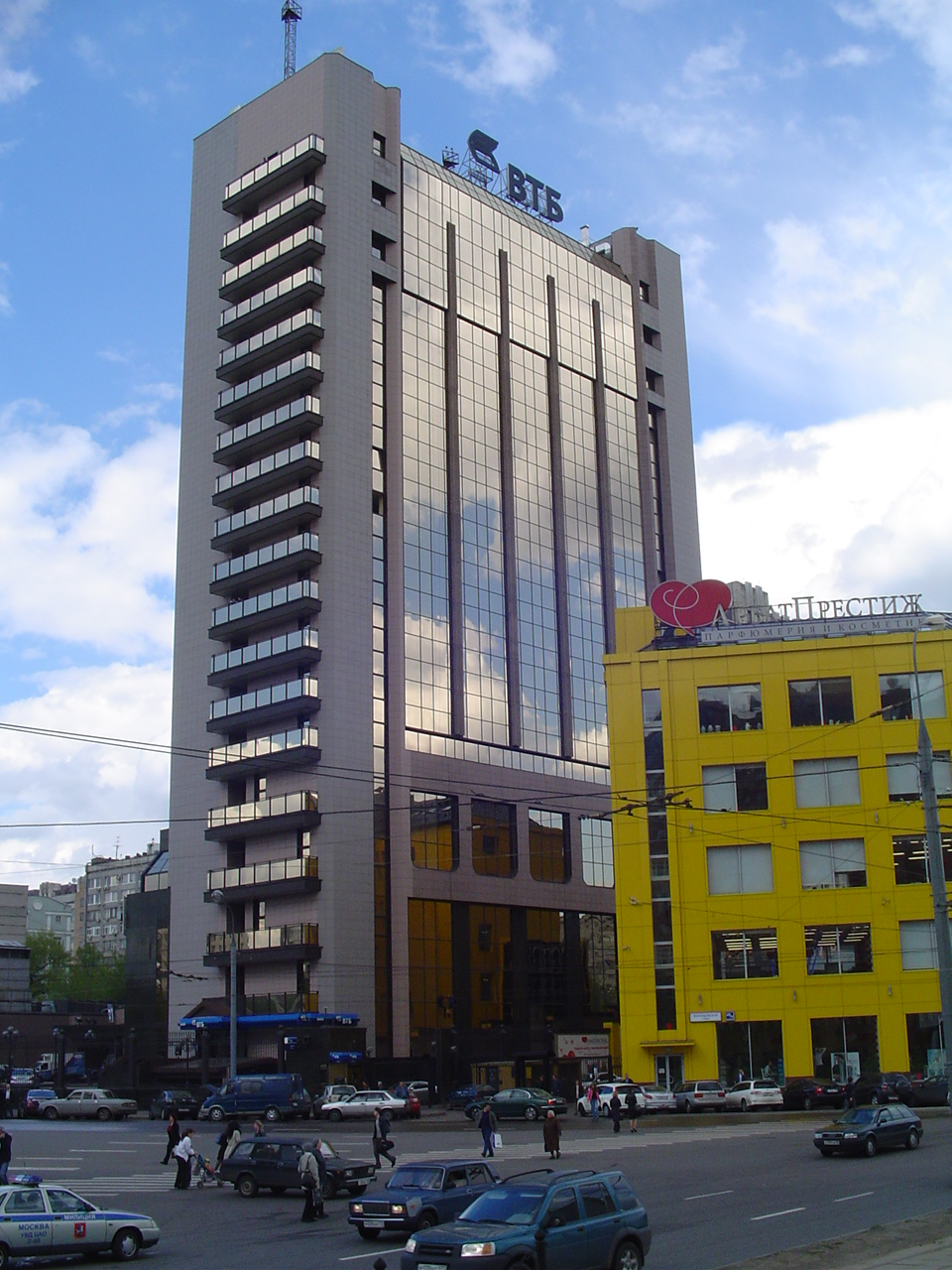 VTB bank, Moscow head office